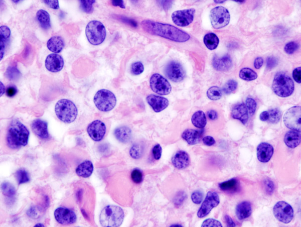 Histopathological image of anaplastic oligodendroglioma in cerebrum. Another view of the same case in a file "Anaplastic_oligodendroglioma_(1).jpg". Hematoxylin & eosin stain.